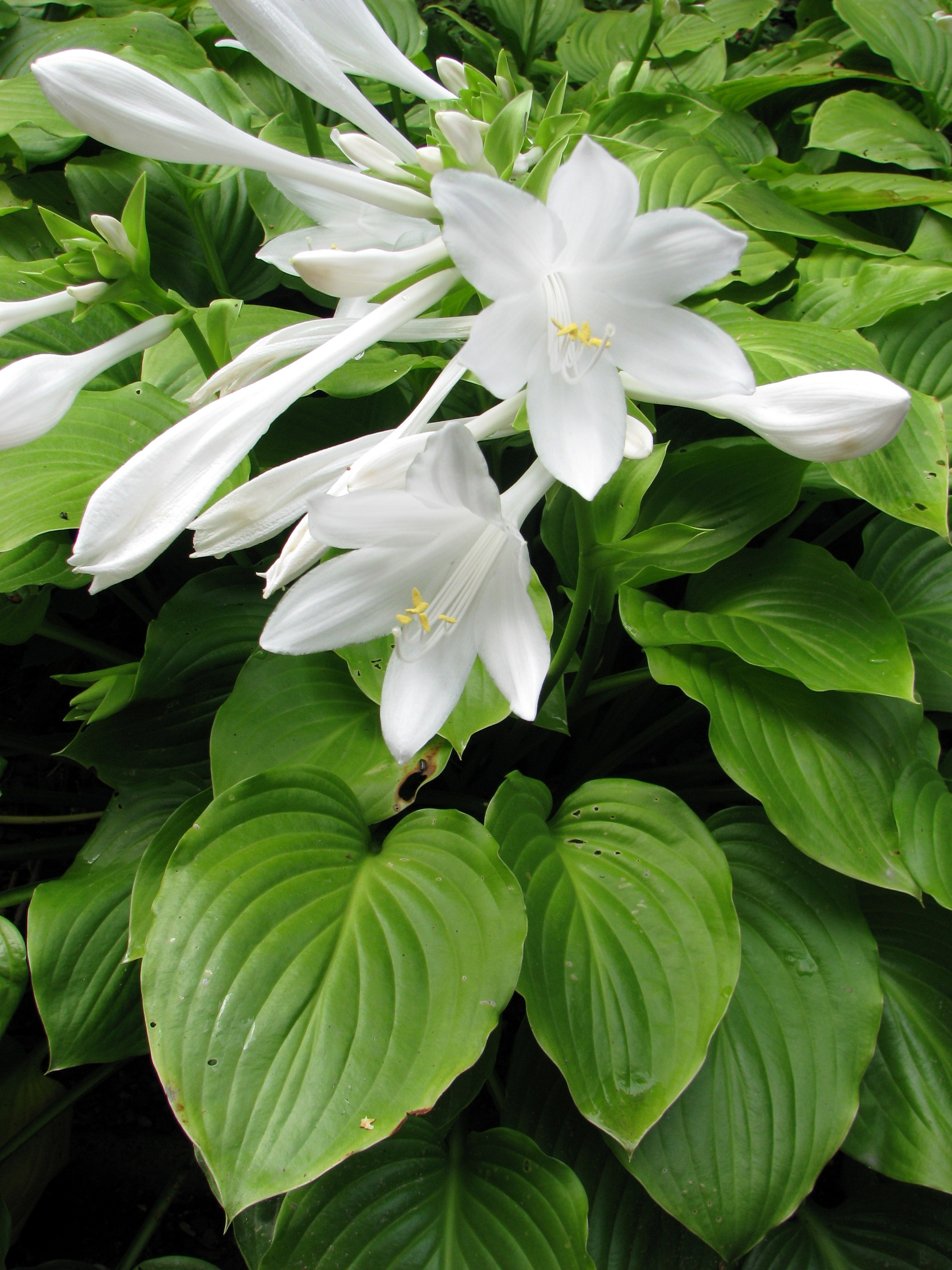 Fragrant plantain lily Hosta plantaginea flowers, cultivated in Wrocław University Botanical Garden, Poland.